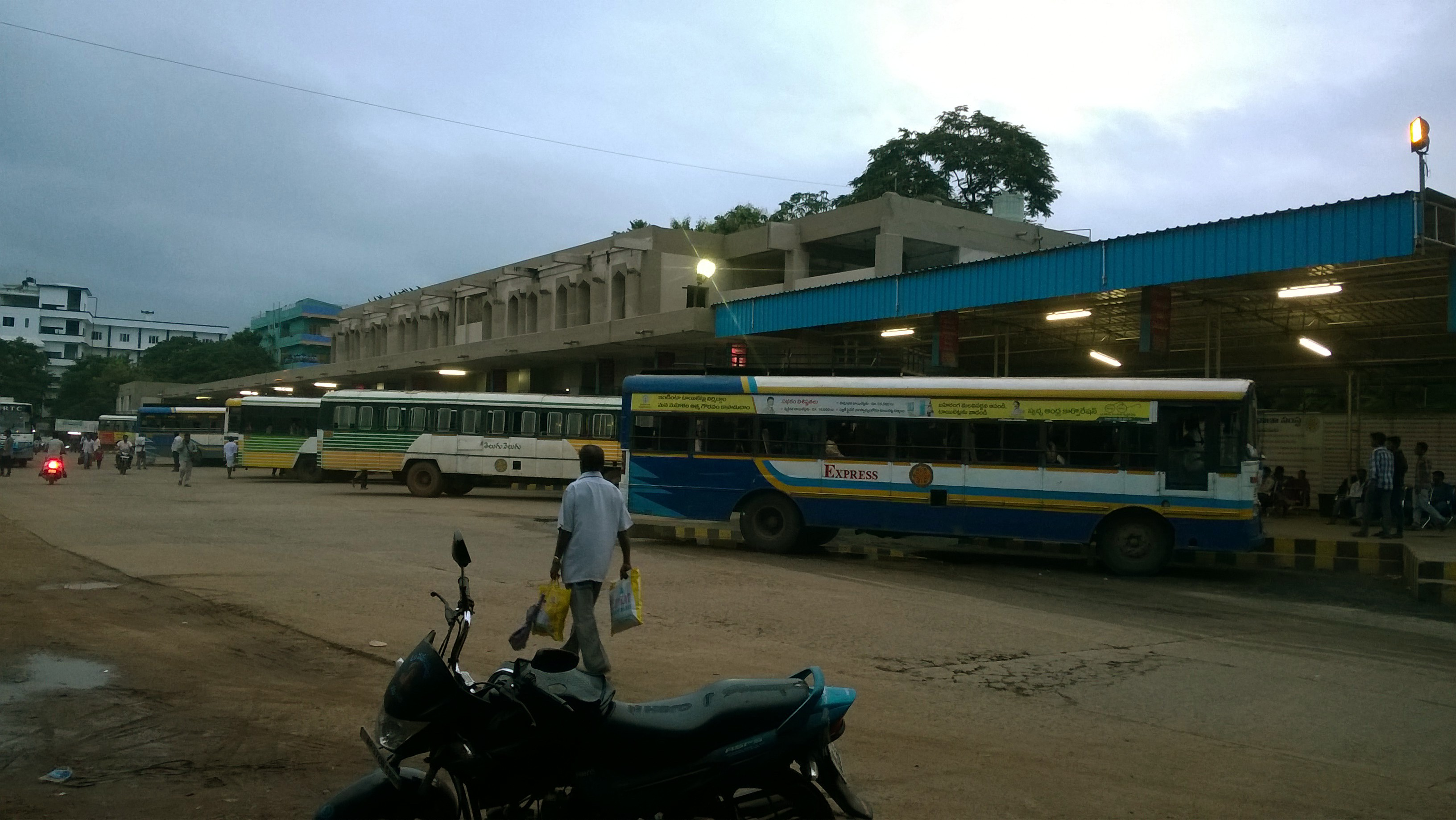 Eluru new bus station